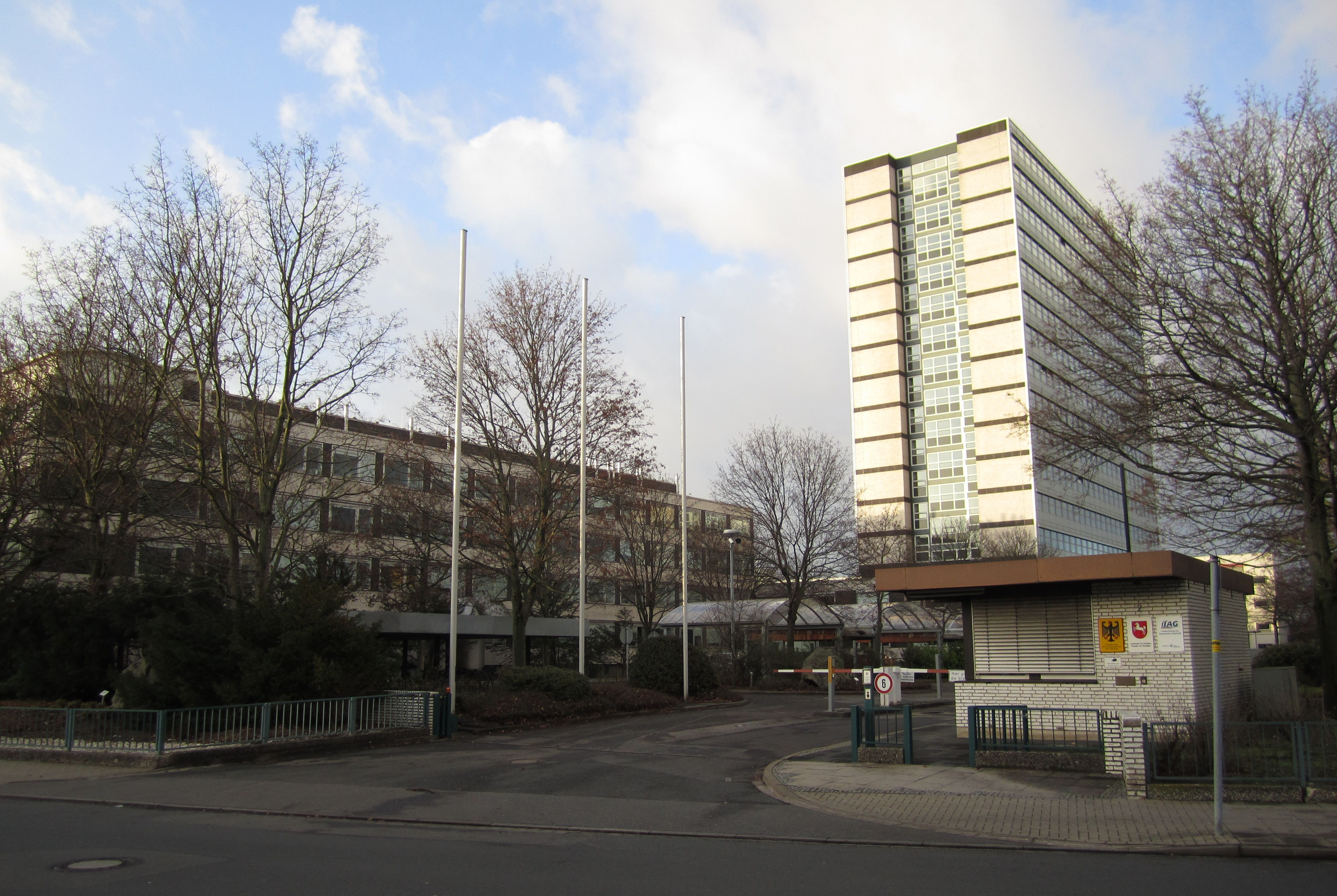 Geozentrum Hannover, Germany.